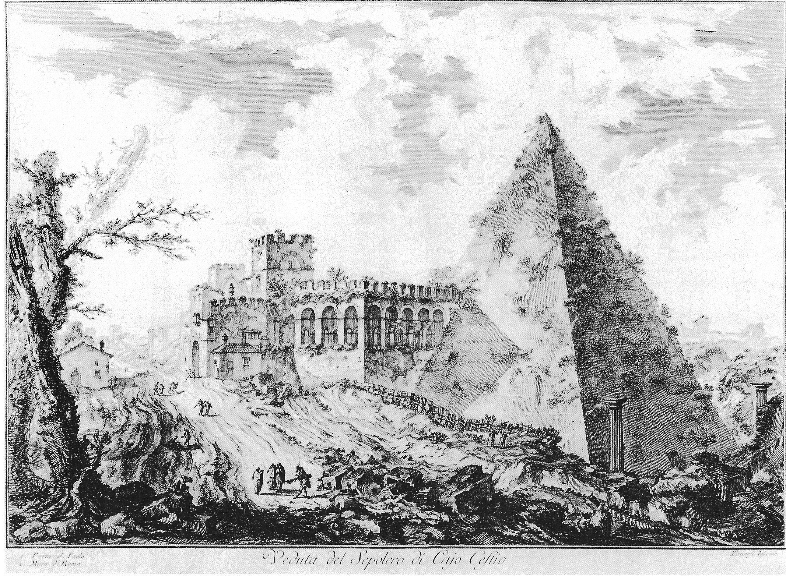 Etching of the Pyramid of Cestius in Rome.